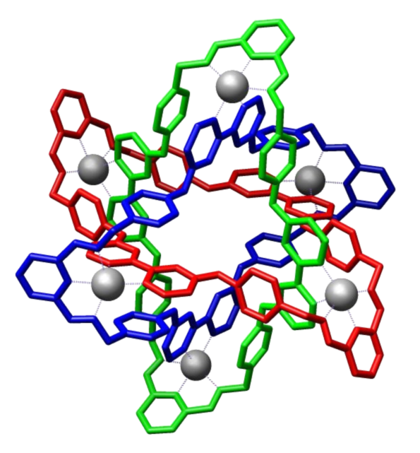 This is a picture generated from a crystal structure reported by James Fraser Stoddart et al. Science 2004, 304, 1308-1312. It shows a molecular Borromean ring with the grey spheres representing zinc(II) ions. It was made by myself and is free to be used by all others.